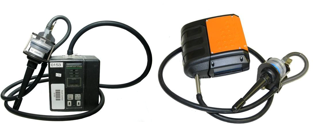 Figure 10. Diesel particulate matter sampler (left); real-time elemental carbon/diesel particulate monitor (right).